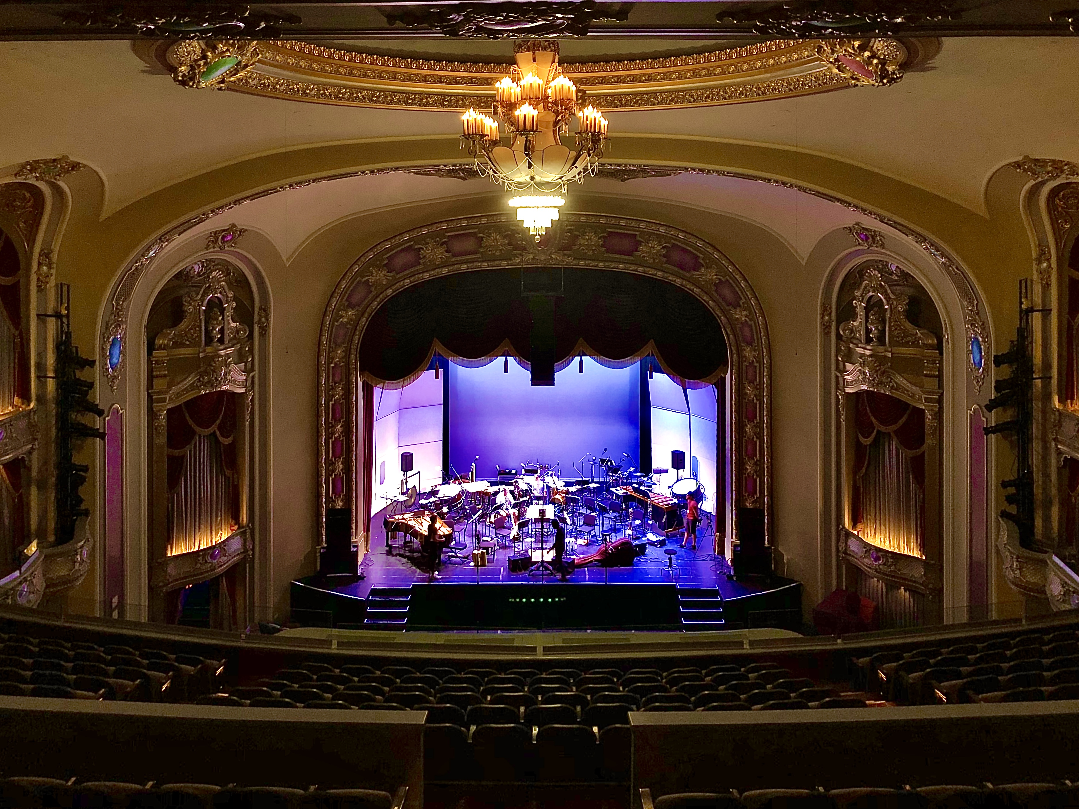 Interior of the Missouri Theatre at the University of Missouri in July 2018